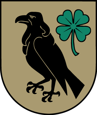 Coat of arms of Preiļi Municipality, Latvia.